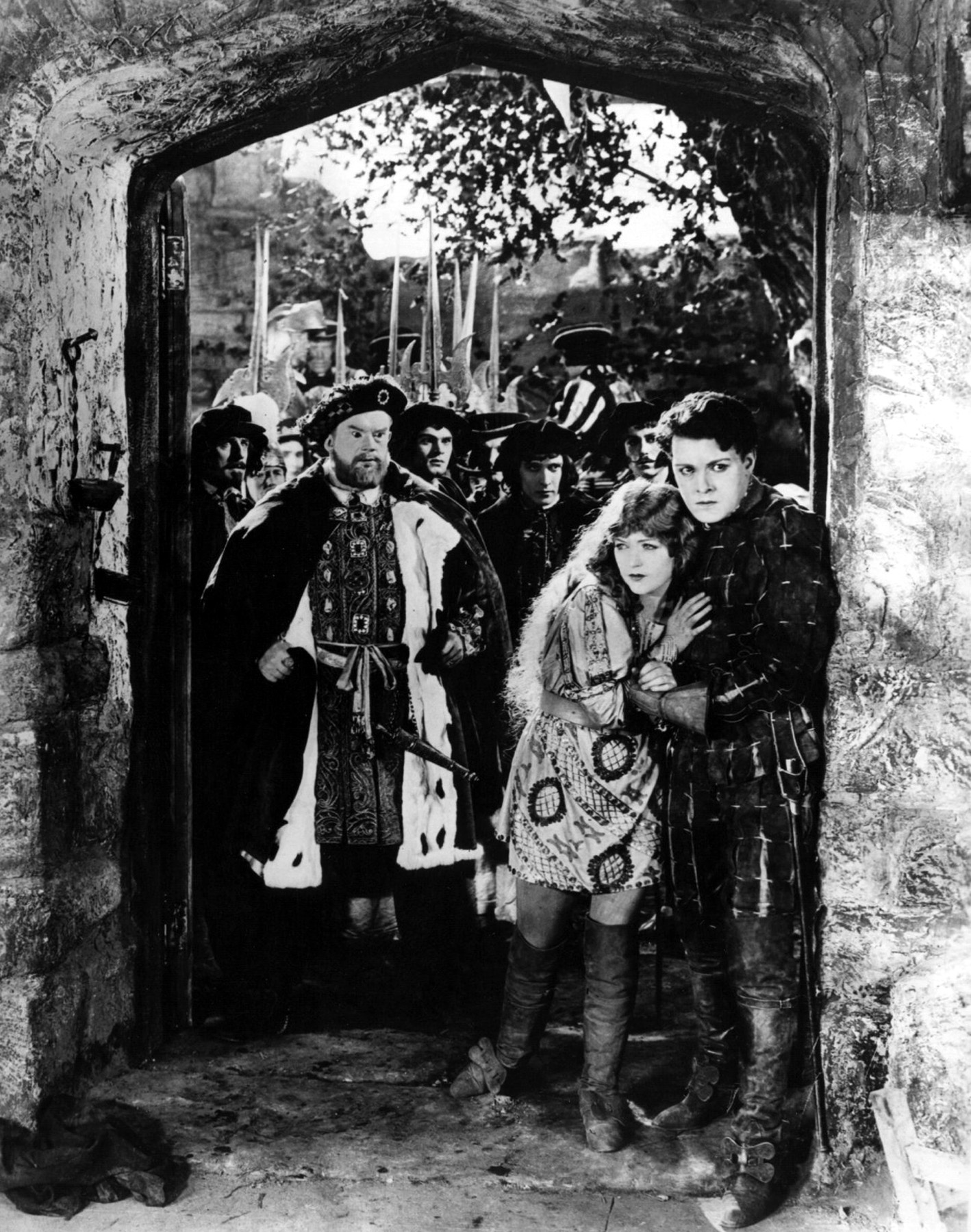 L. to R. : Lyn Harding (Henry VIII), Marion Davies (Mary Tudor) & Forrest Stanley (Charles Brandon) in When Knighthood Was in Flower - cropped screenshot